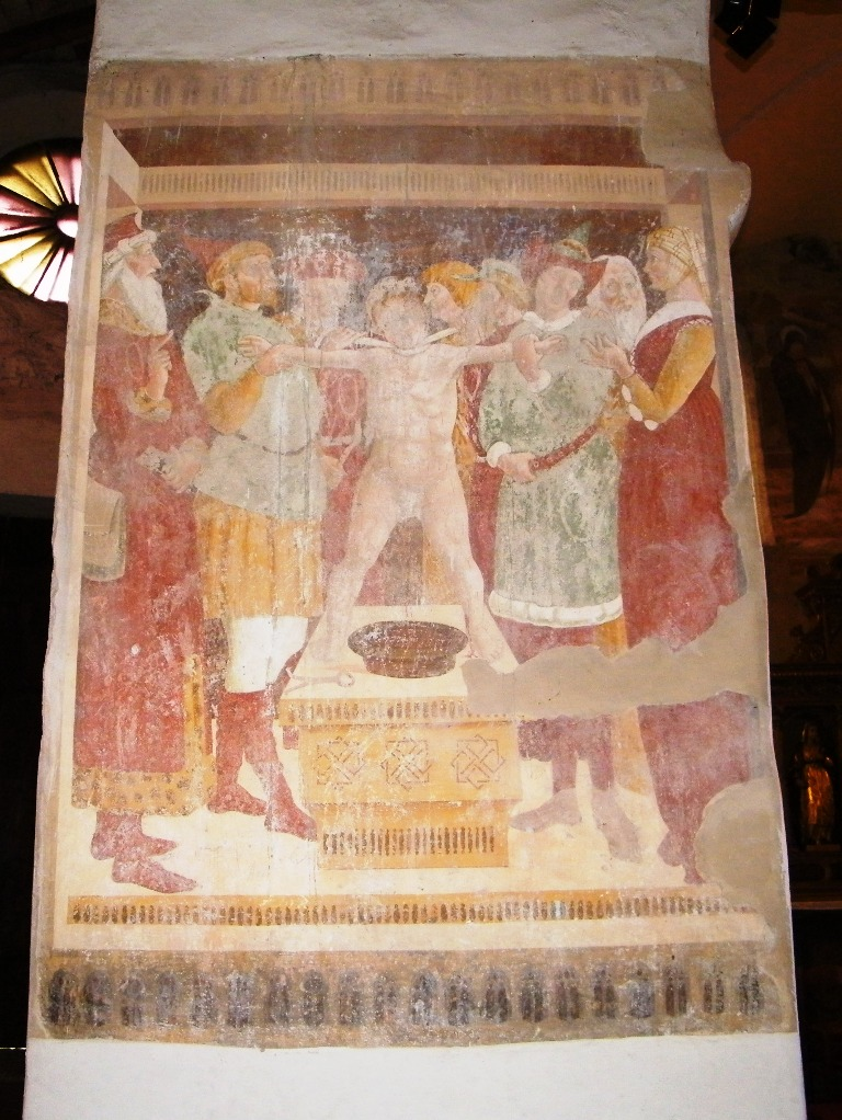 Martyr of Simonin of Trient. Church of St Maria Rotonda. Pian Camuno, Val Camonica.